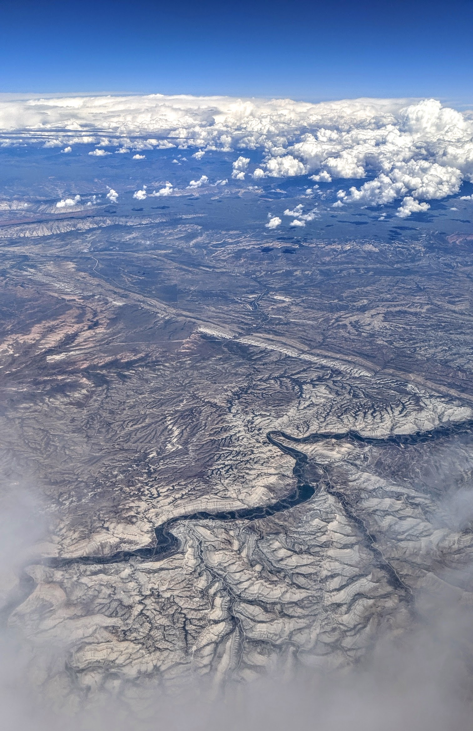 Aerial view from the south of the White River at Dripping Rock Creek, Colorado